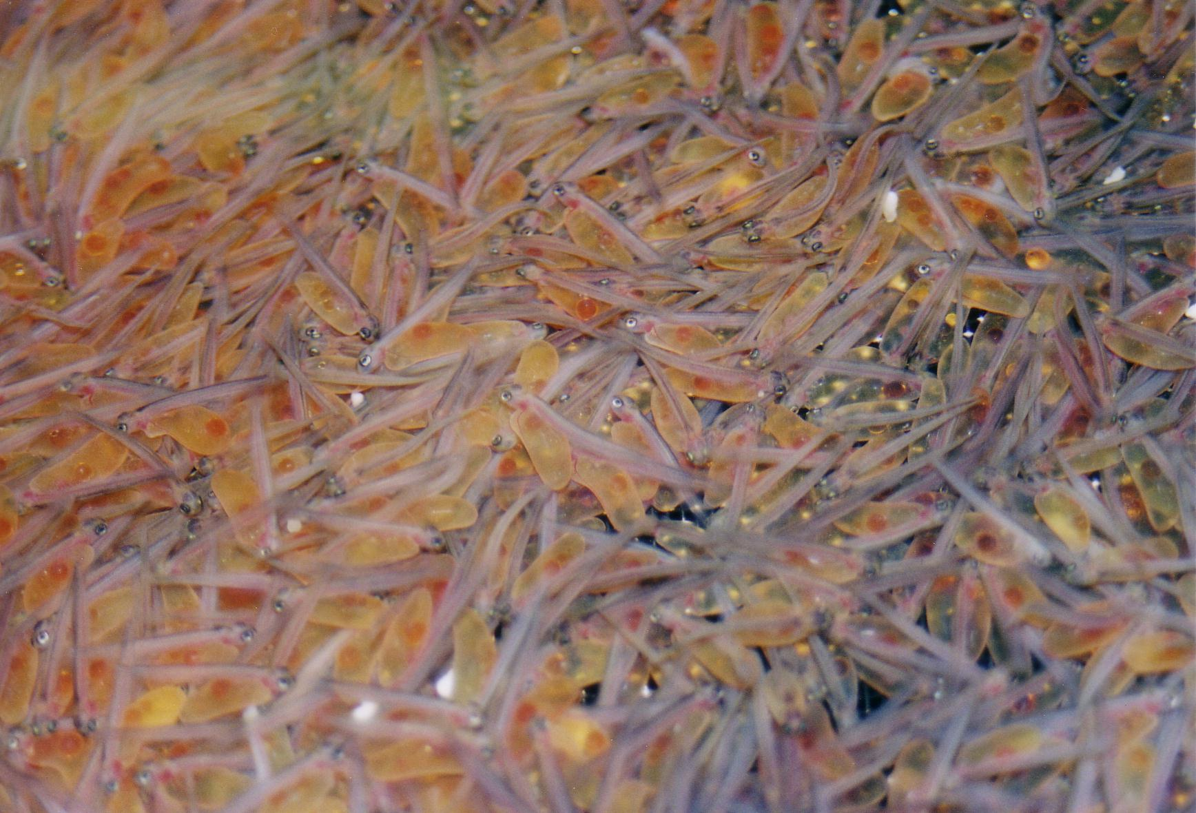 young trouts (Salmo trutta)